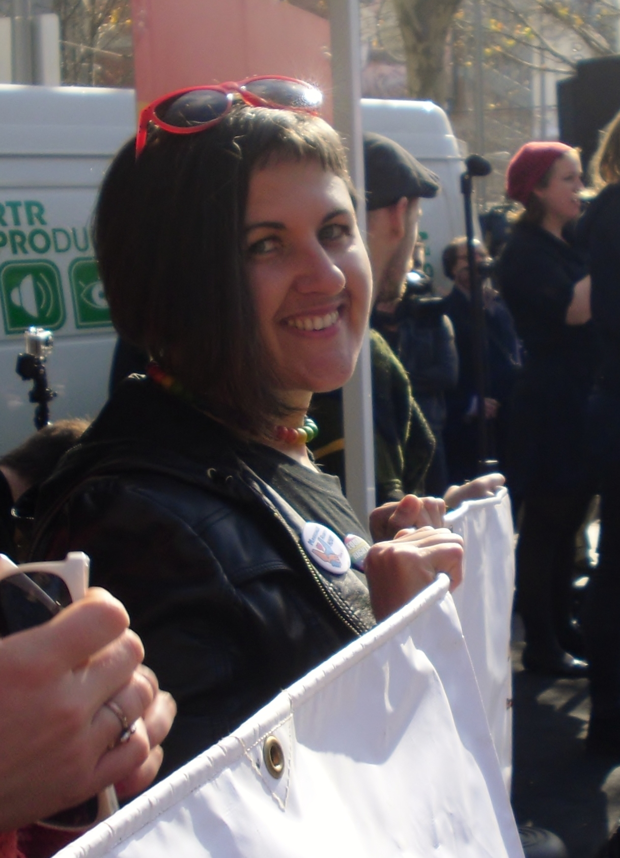 Ali Hogg, Equal Love Rally, Melbourne. August 13th, 2012